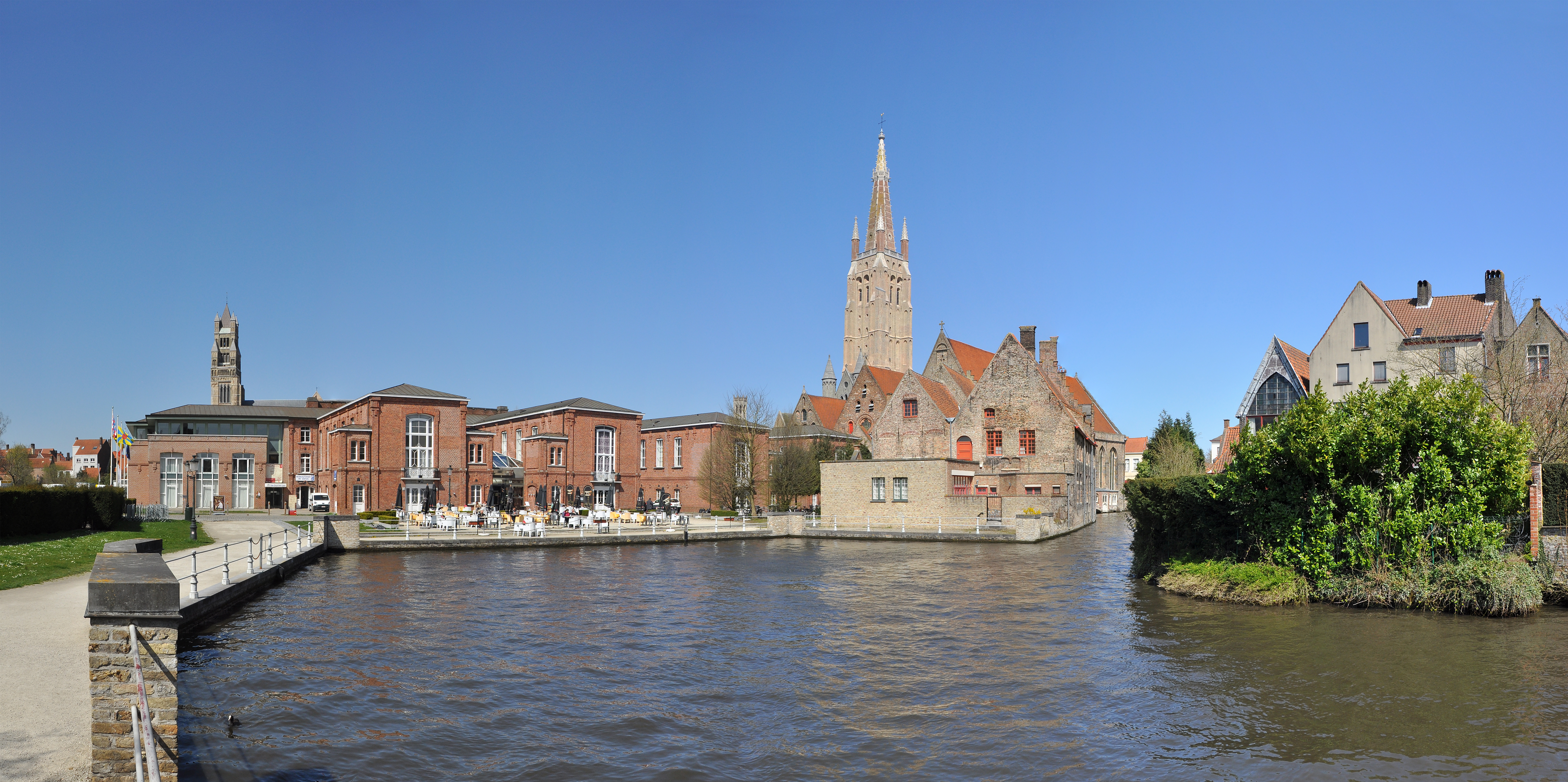 Bruges (Belgium): the old St John's hospital and the Reie